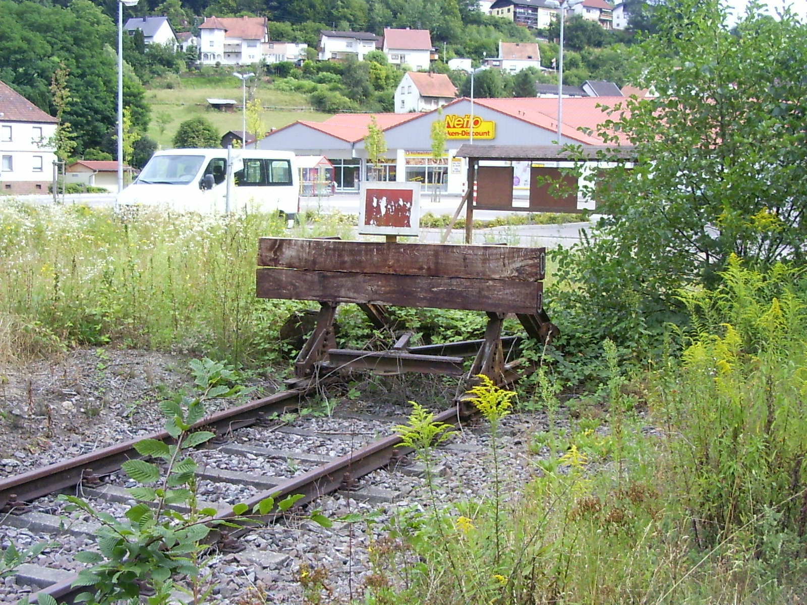 The very end of the Wieslauterbahn